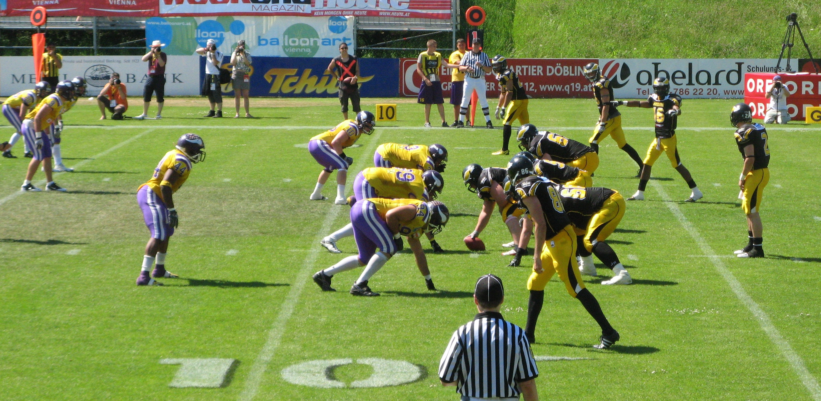 Eurobowl XXIV: Raiffeisen Vikings Vienna gegen Eurobowl XXIV: Raiffeisen Vikings Vienna vs. Berlin Adler (31:34), @ Hohe Warte Stadium Vienna Snap by Berlin Adler